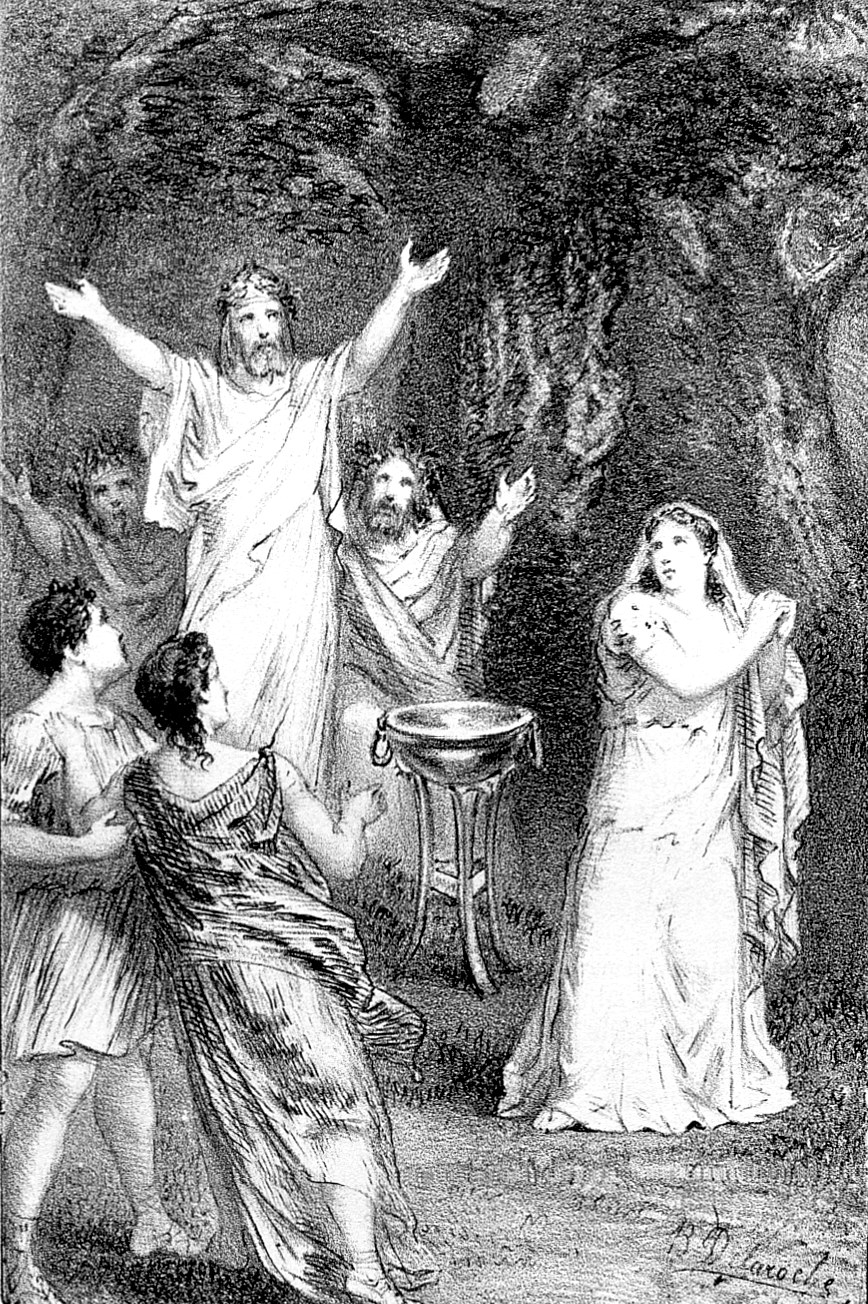 André Cardinal Destouches - Issé - image from the piano score by Hector Salomon, Paris 1880 (extract)